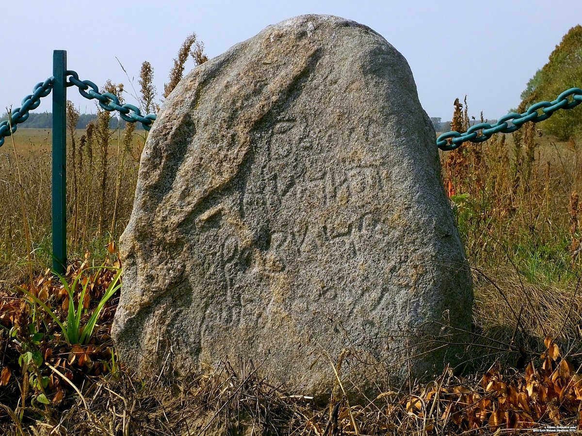 Gravestone from the village Kamień in Kobryn district, Belarus